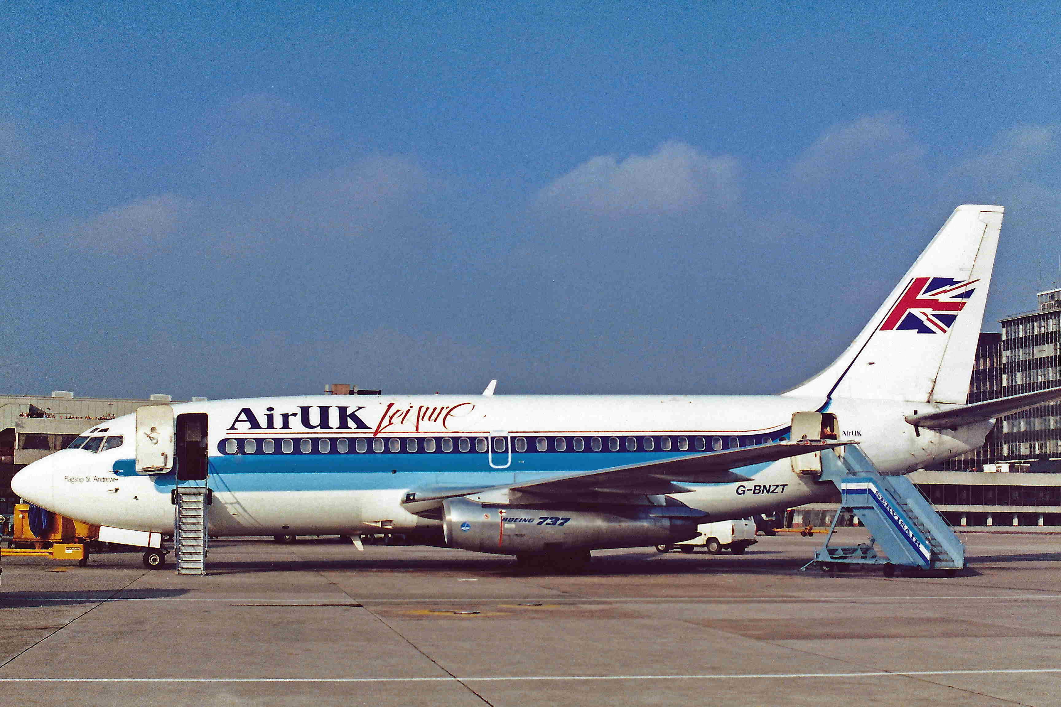 Replacing an earlier scanned photo with a better version.